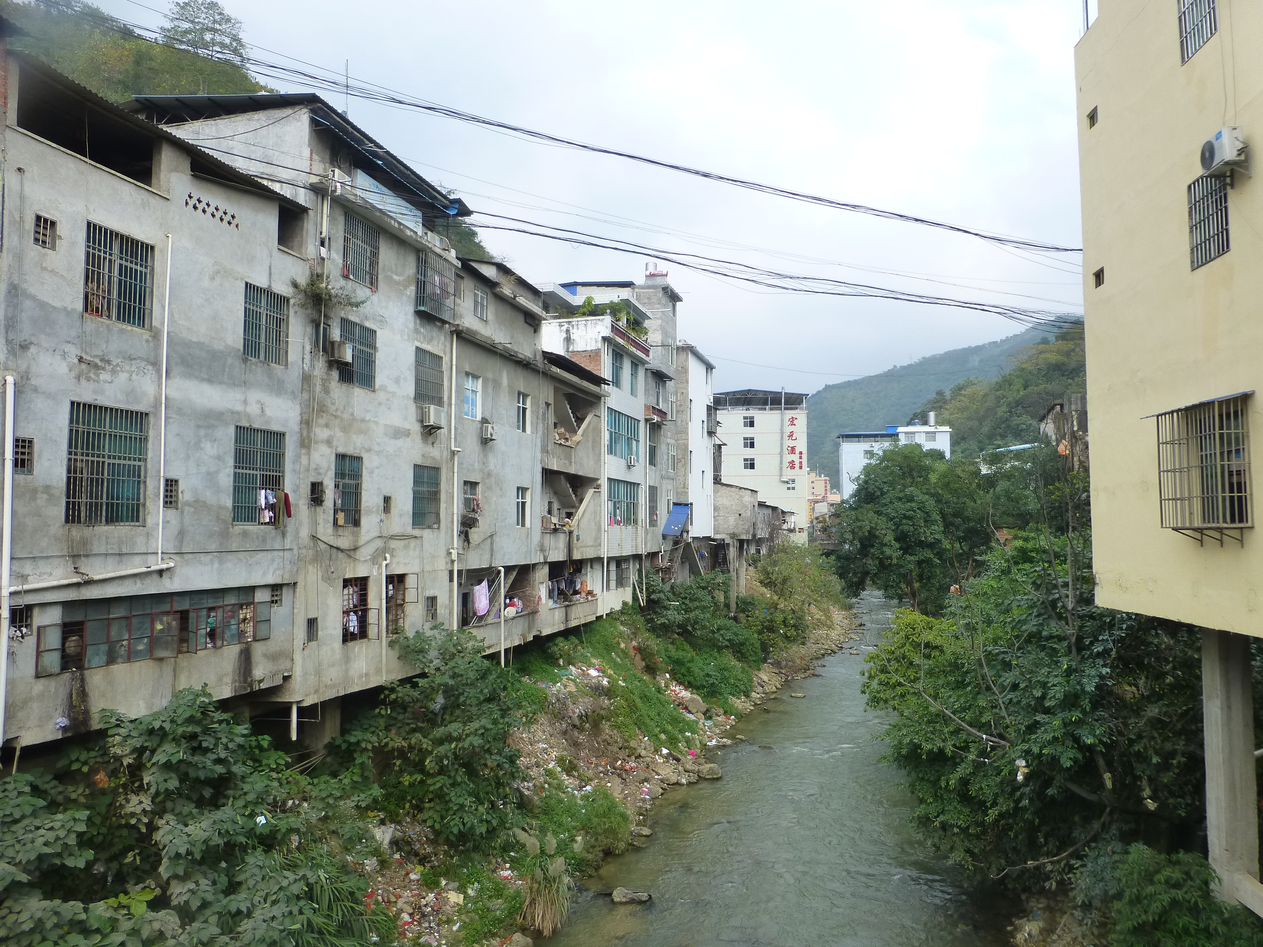 Xinxian River (a small tributary of the Red Reiver) in downtown Lianhuatan Township, Hekou County, Yunnan.